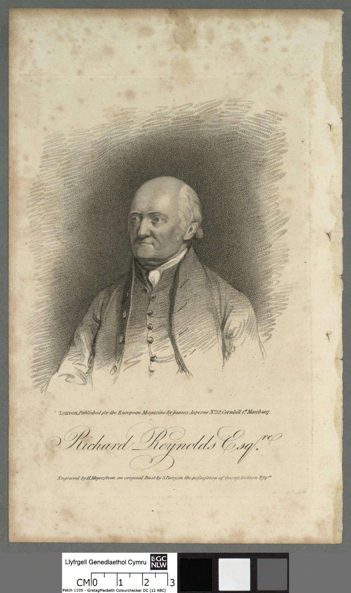 A portrait from the Welsh Portrait Collection at the National Library of Wales. Depicted person: Richard Reynolds – English ironmaster and philanthropist